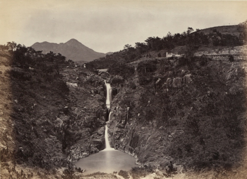 Water Fall, Pokfulum. (Hongkong.) Location: Hongkong, Hong Kong Date: 1869-1900 Our Catalogue Reference: Part of CO 1069/444. This image is part of the Colonial Office photographic collection held at The National Archives. Feel free to share it within the spirit of the Commons. Please use the comments section below the pictures to share any information you have about the people, places or events shown. We have attempted to provide place information for the images automatically but our software may not have found the correct location. For high quality reproductions of any item from our collection please contact our image library